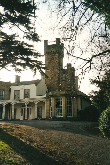 Belmont House prior to demolition